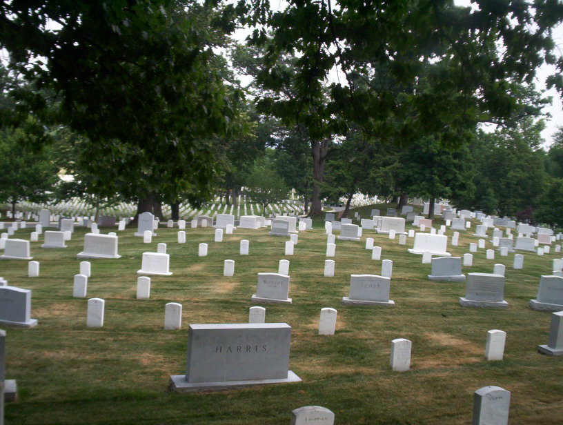 Arlington National Cemetery, Arlingtion, Virgina, United States